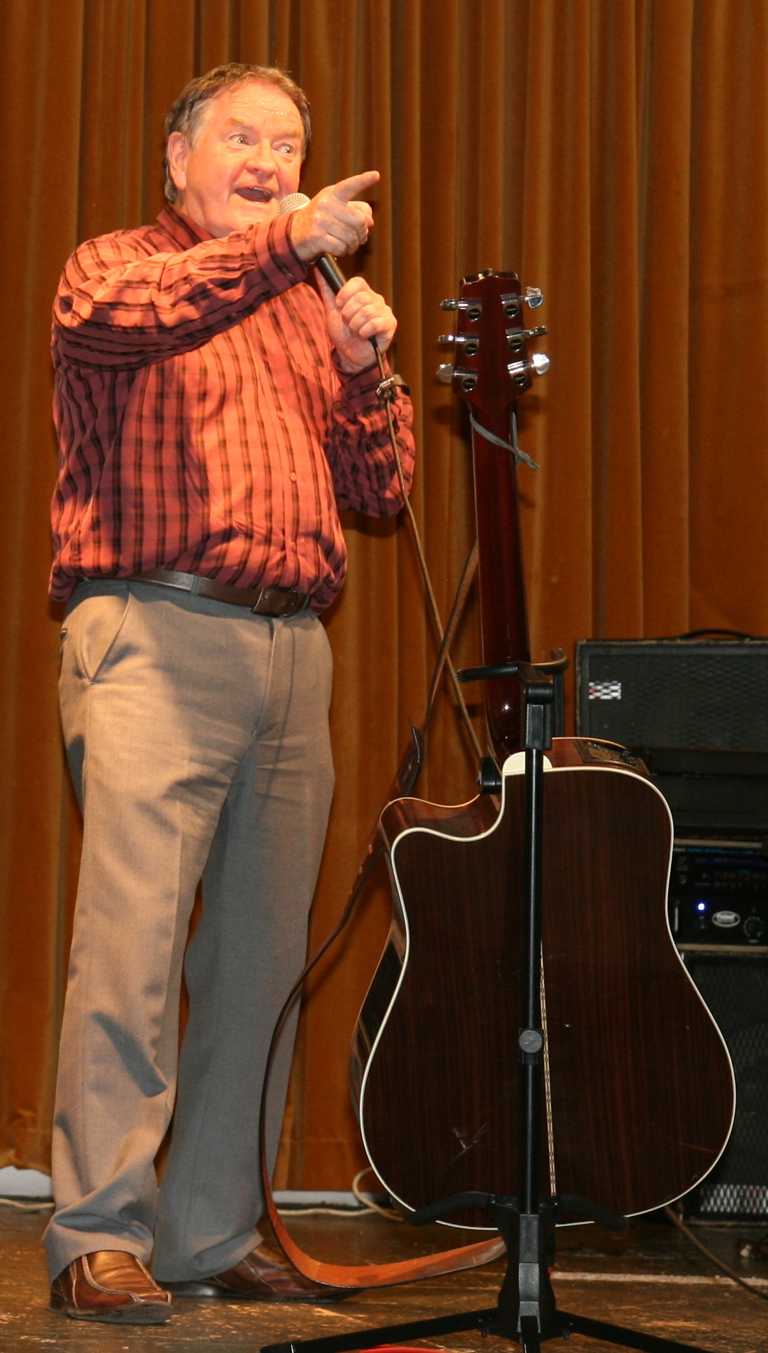 Dafydd Iwan, Plaid Cymru politician and folk singer, by Darren Wyn Rees at Aberdare Blog